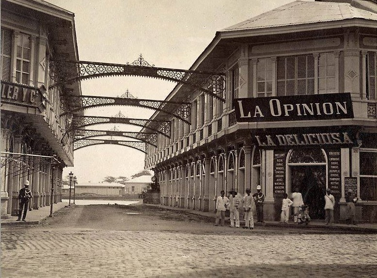 Beautiful Buildings of Pre-war Manila